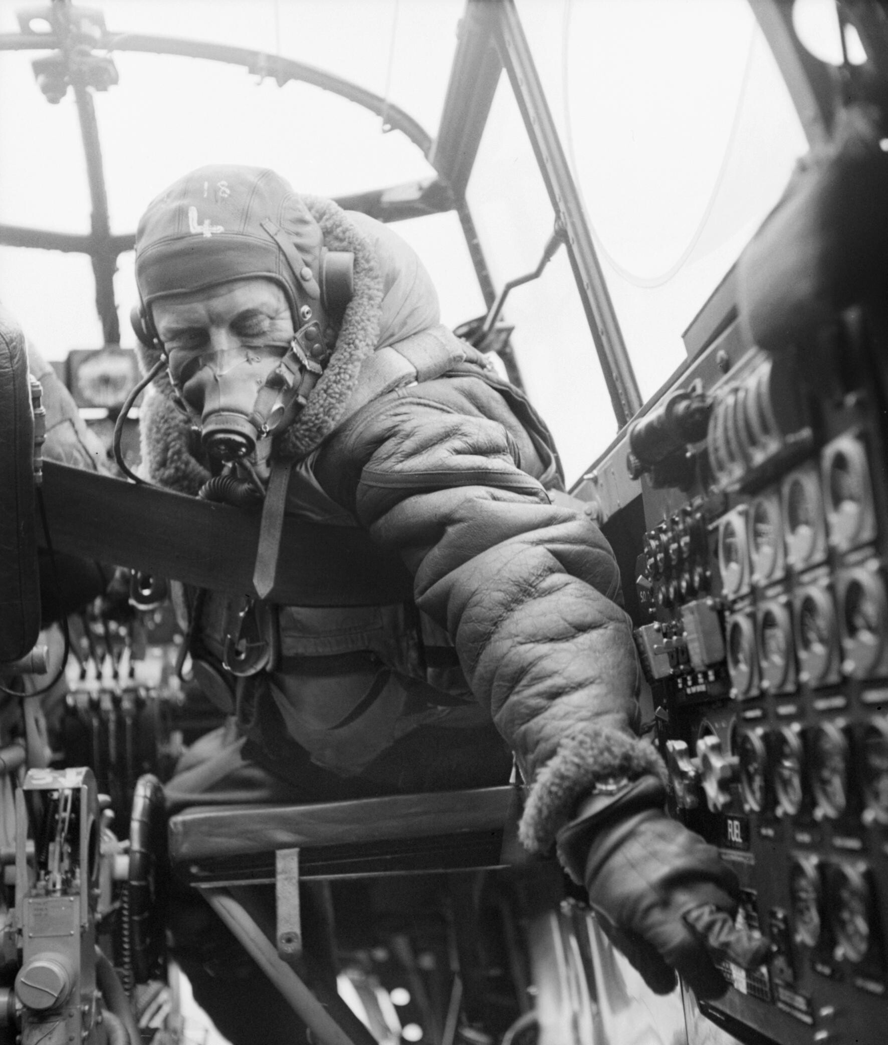 Royal Air Force Bomber Command, 1942-1945. Flying Officer J B Burnside, the flight engineer on board an Avro Lancaster B Mark III of No. 619 Squadron RAF based at Coningsby, Lincolnshire, checks settings on the control panel from his seat in the cockpit.